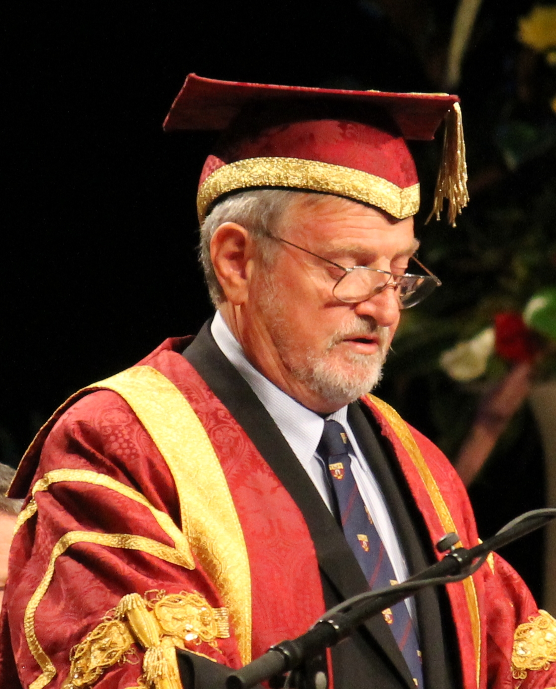 Chancellor John Wood at the 17 April 2014 graduation ceremony.